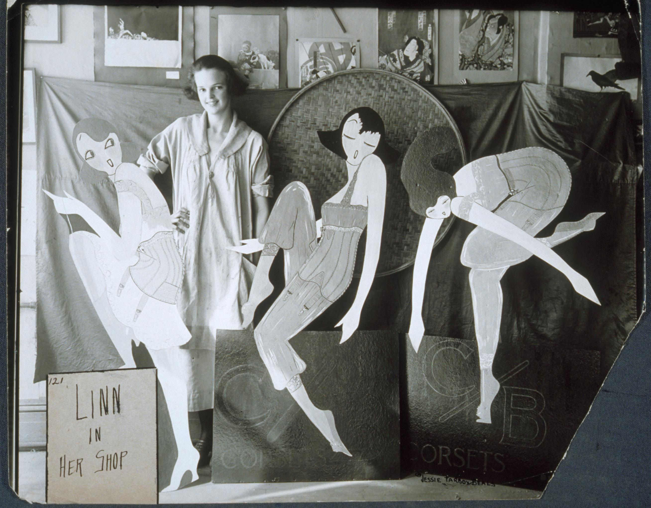 Lin standing behind an advertising display, ca. 1917-1925. Photographer: Jessie Tarbox Beals Catalog record Questions?